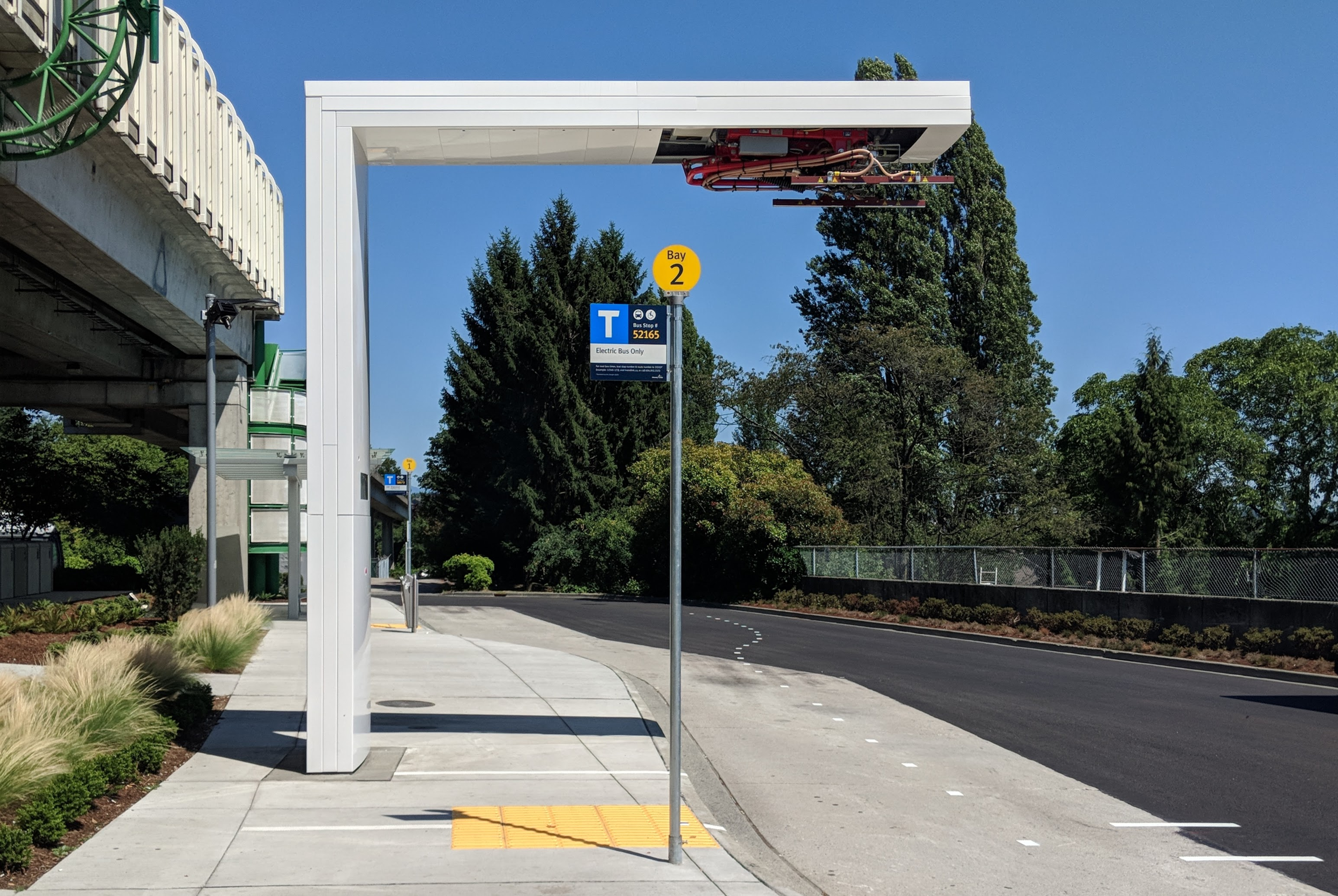 Charging station for battery electric buses at 22nd Street station. Photo taken in July 2019.